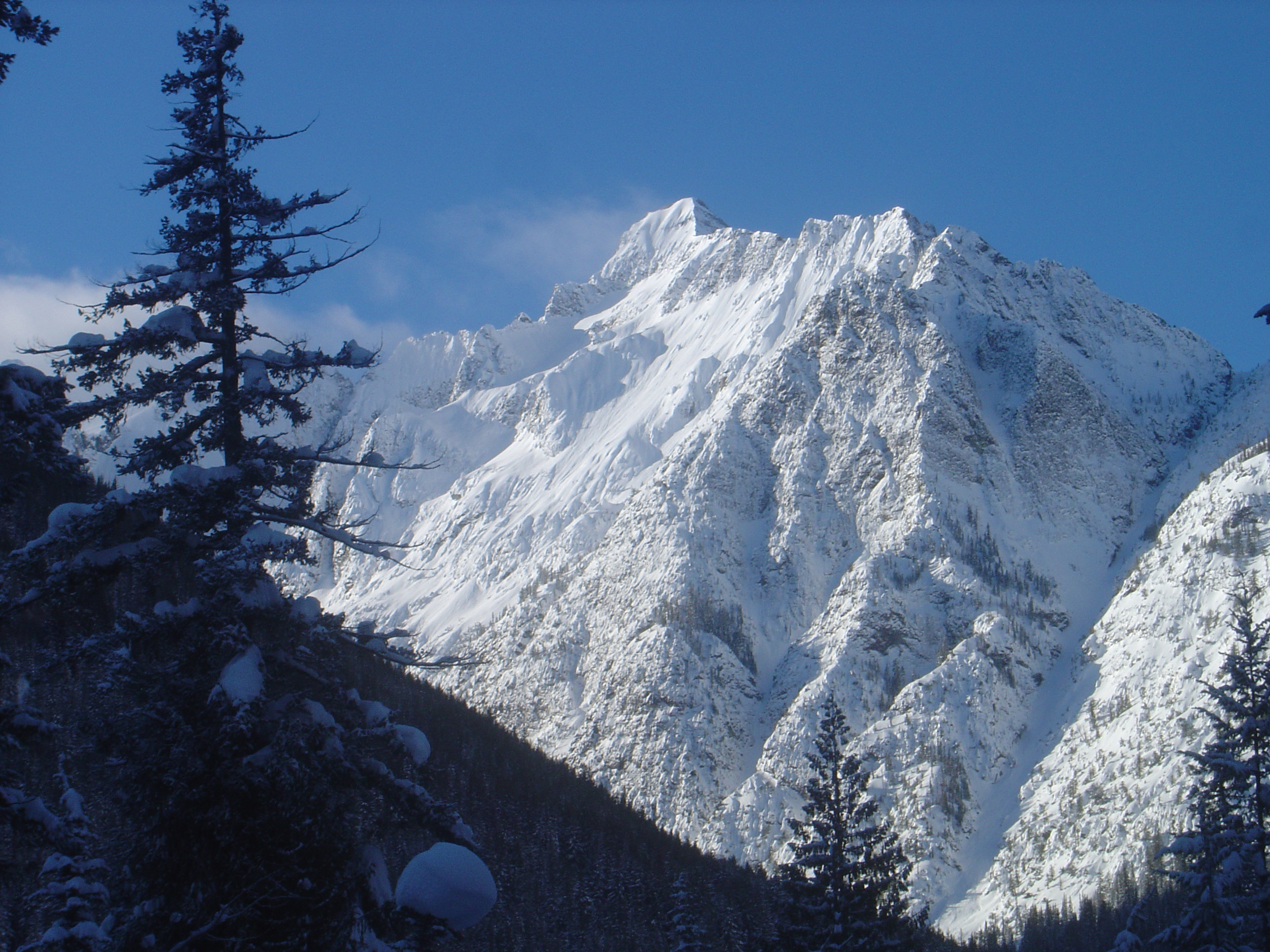 snow-covered Copper Peak in Entiat mountains, WA